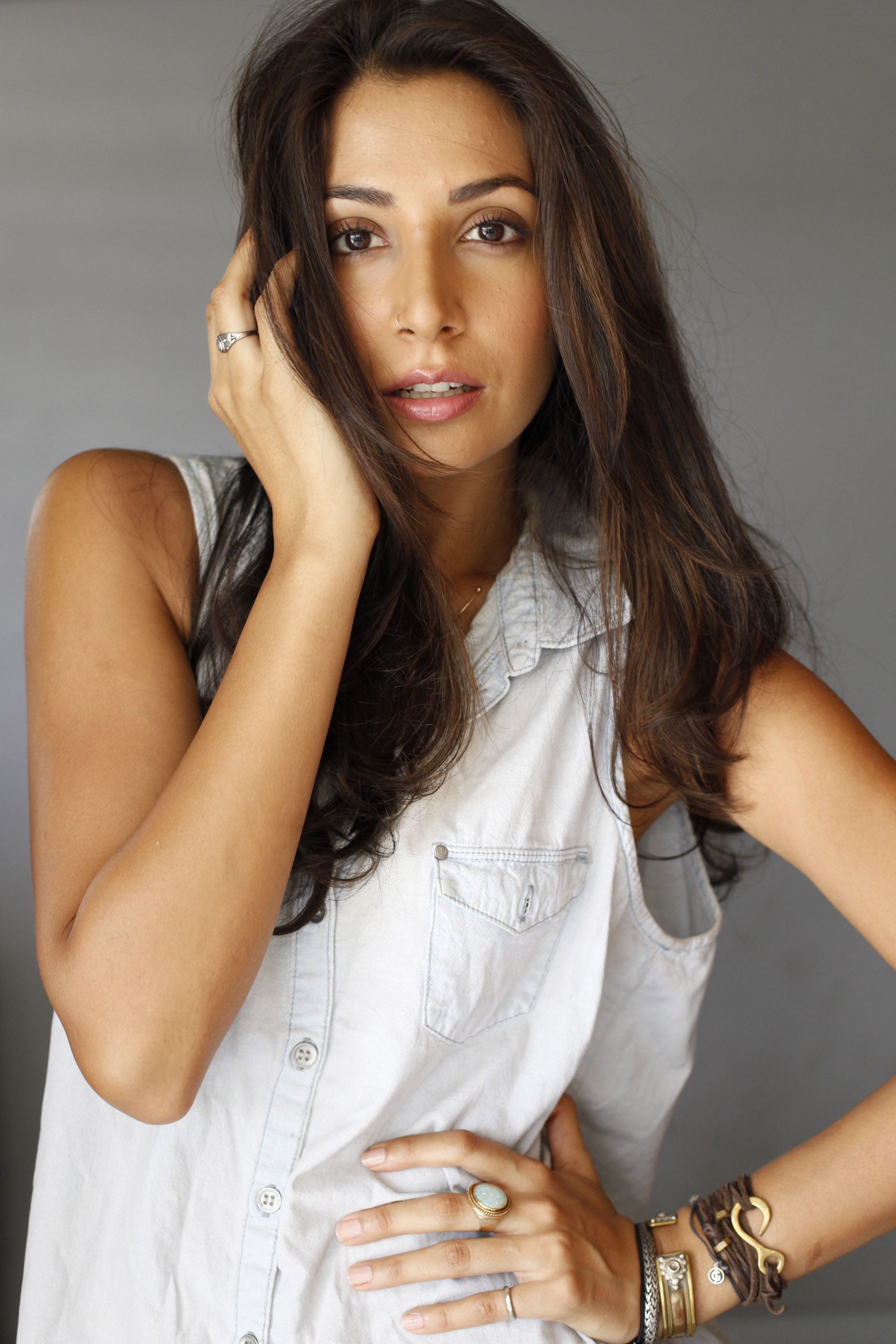 Photographer : Anushka Nadia Menon, 2012